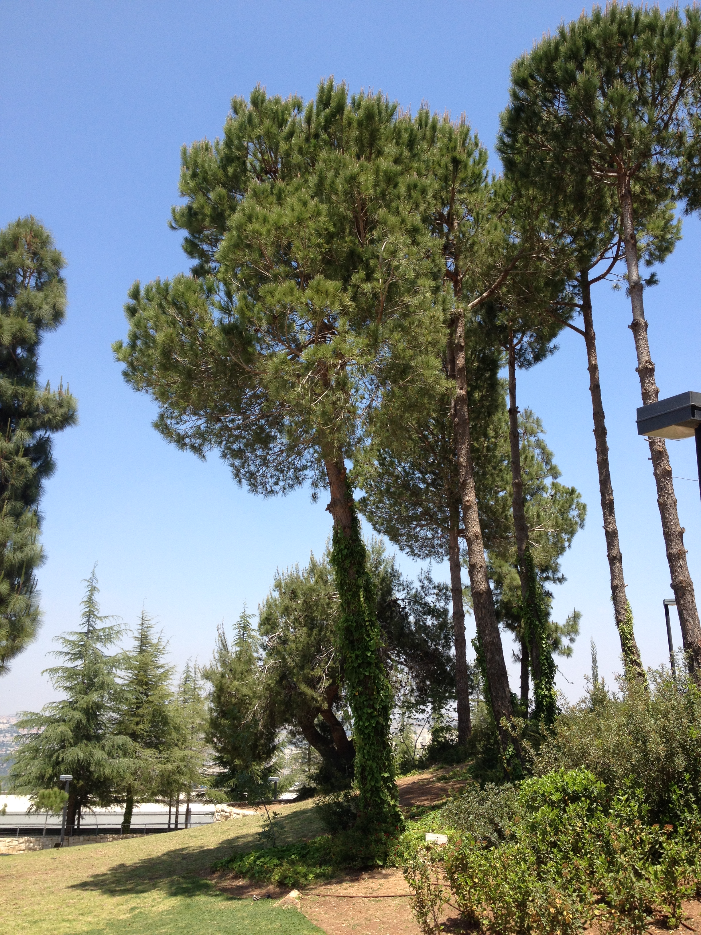 The tree dedicated to Aristides de Sousa Mendes (Righteous Among the Nations) in Jerusalem's Yad Vashem.